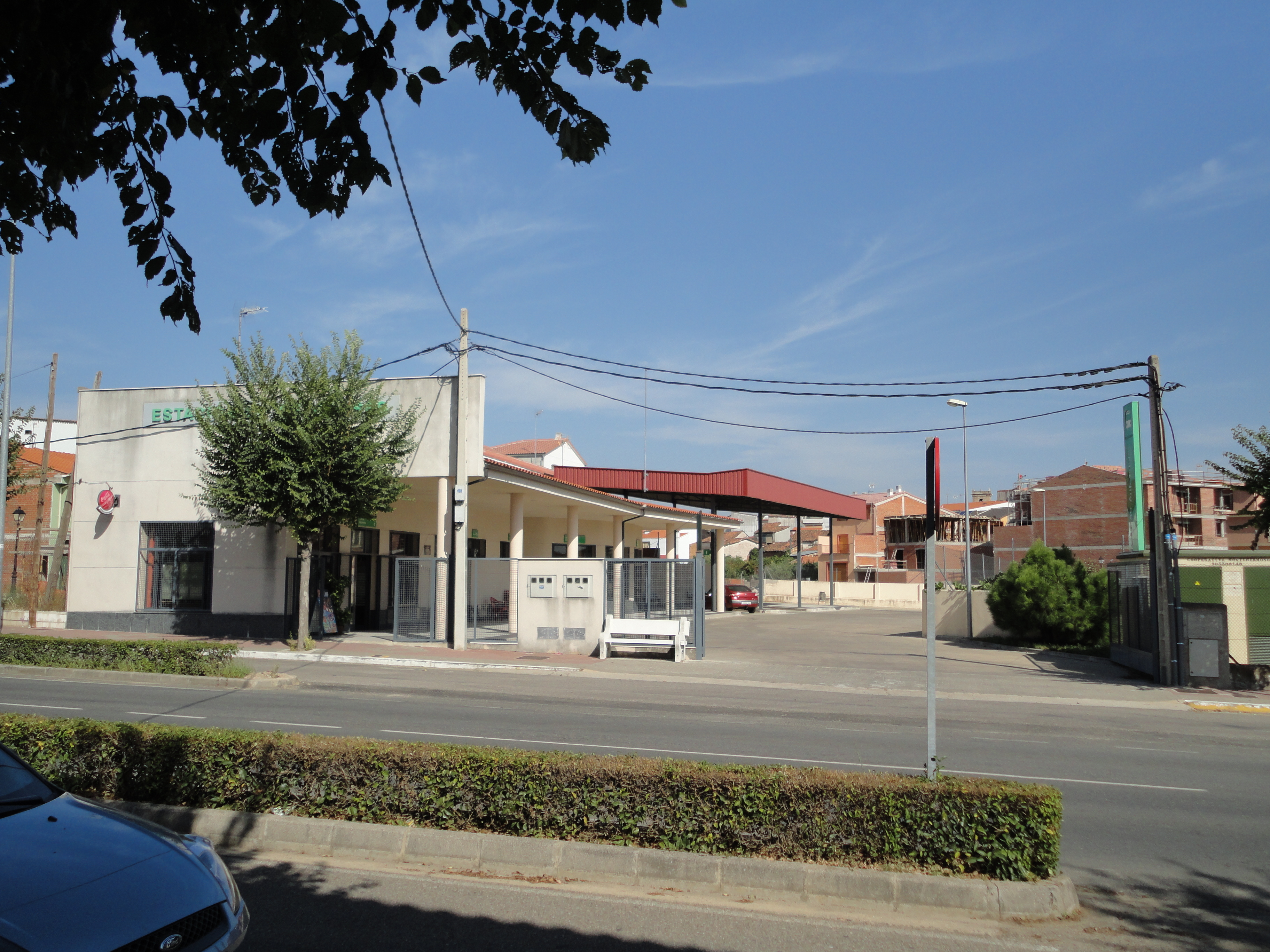 Bus station in Montehermoso, province of Cáceres, Spain.